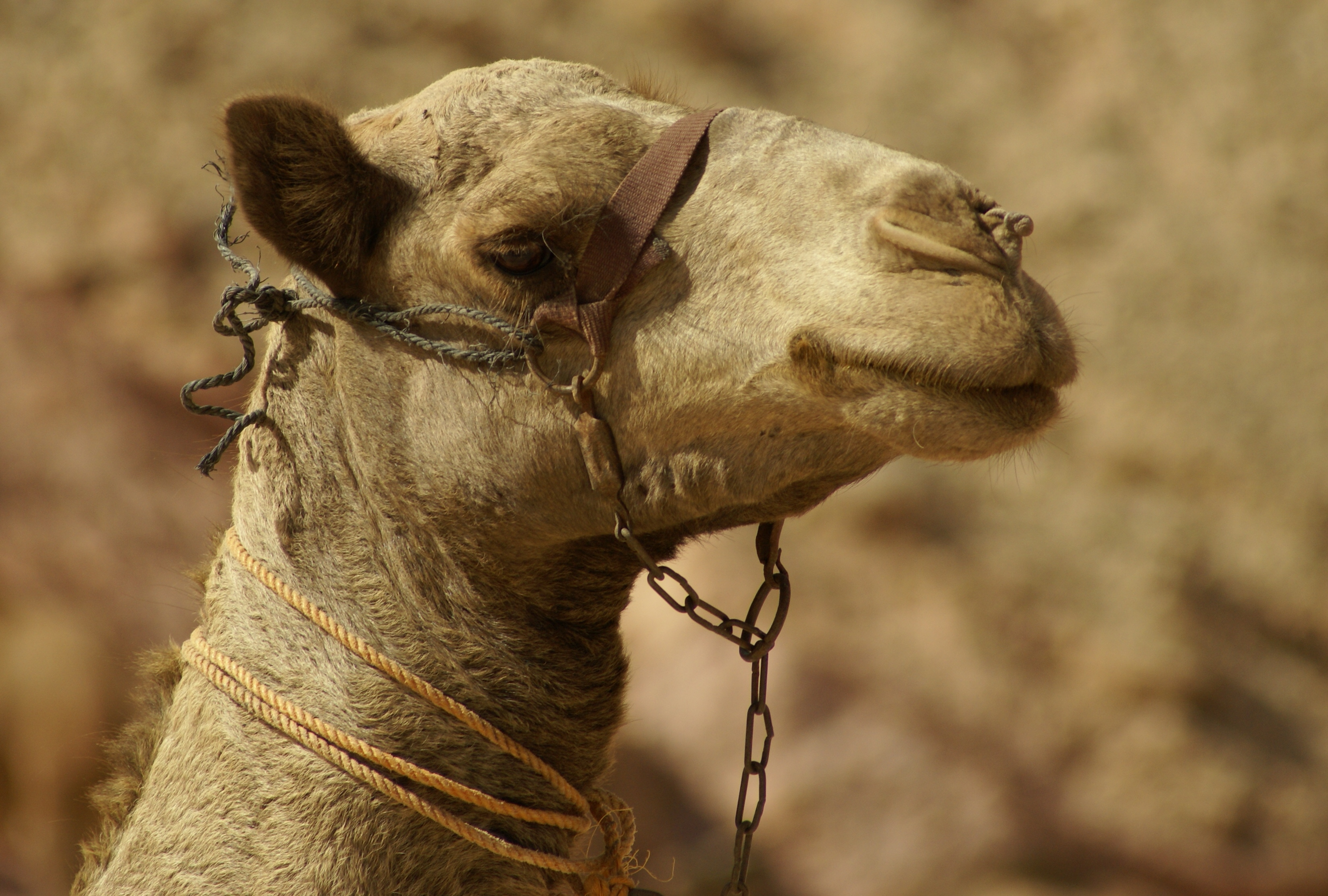 The profile portrait of a dromedary (Camelus dromedarius) on the Sinai Peninsula, Egypt.